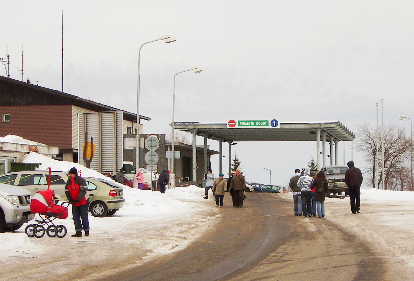 Czech-Poland border, Pomezní Boudy, Krkonoše